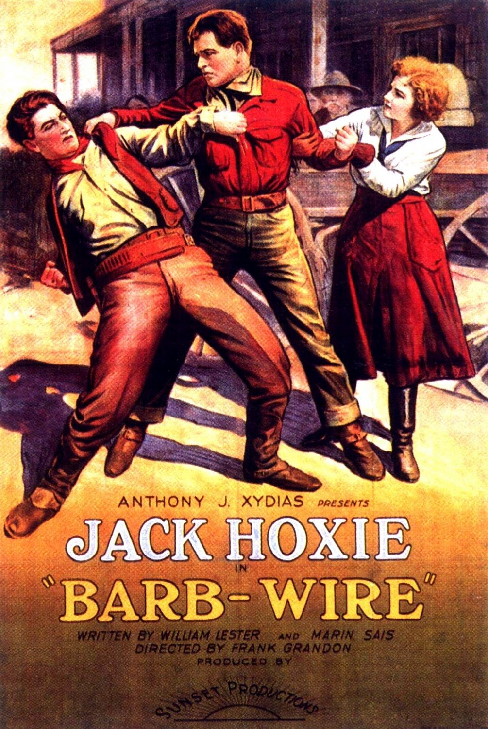 Poster from the American western film Barb Wire (1922). The actress Jean Porter is not the same as the Jean Porter born 1922 who was in MGM films of the 1940s.